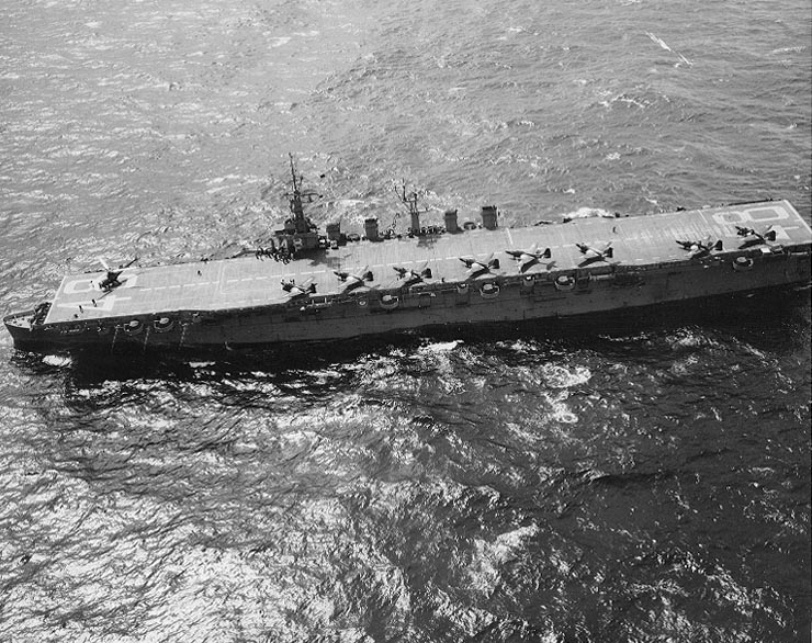 The U.S. Navy light aircraft carrier USS Saipan (CVL-48) underway at sea, with eight FH-1 "Phantom" jet fighters of Fighter Squadron 17A (VF-17A) "Phantom Fighters" on her flight deck. Note: The original print is dated June 1953, but the presence of FH-1s and the general rig of the ship indicate that the photograph was actually taken during the late 1940s. VF-17A operated from Saipan in May 1948.